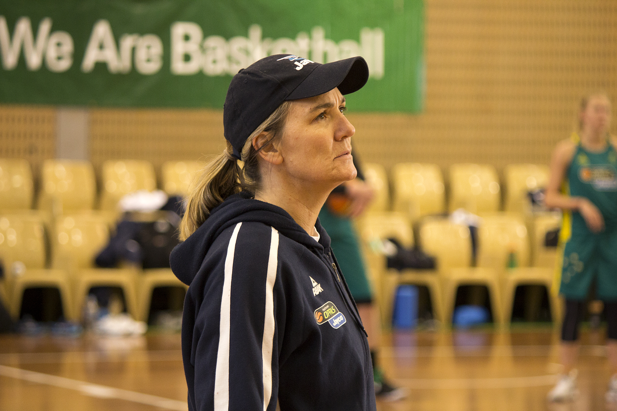 Carrie Graf at day two of the Opals camp.